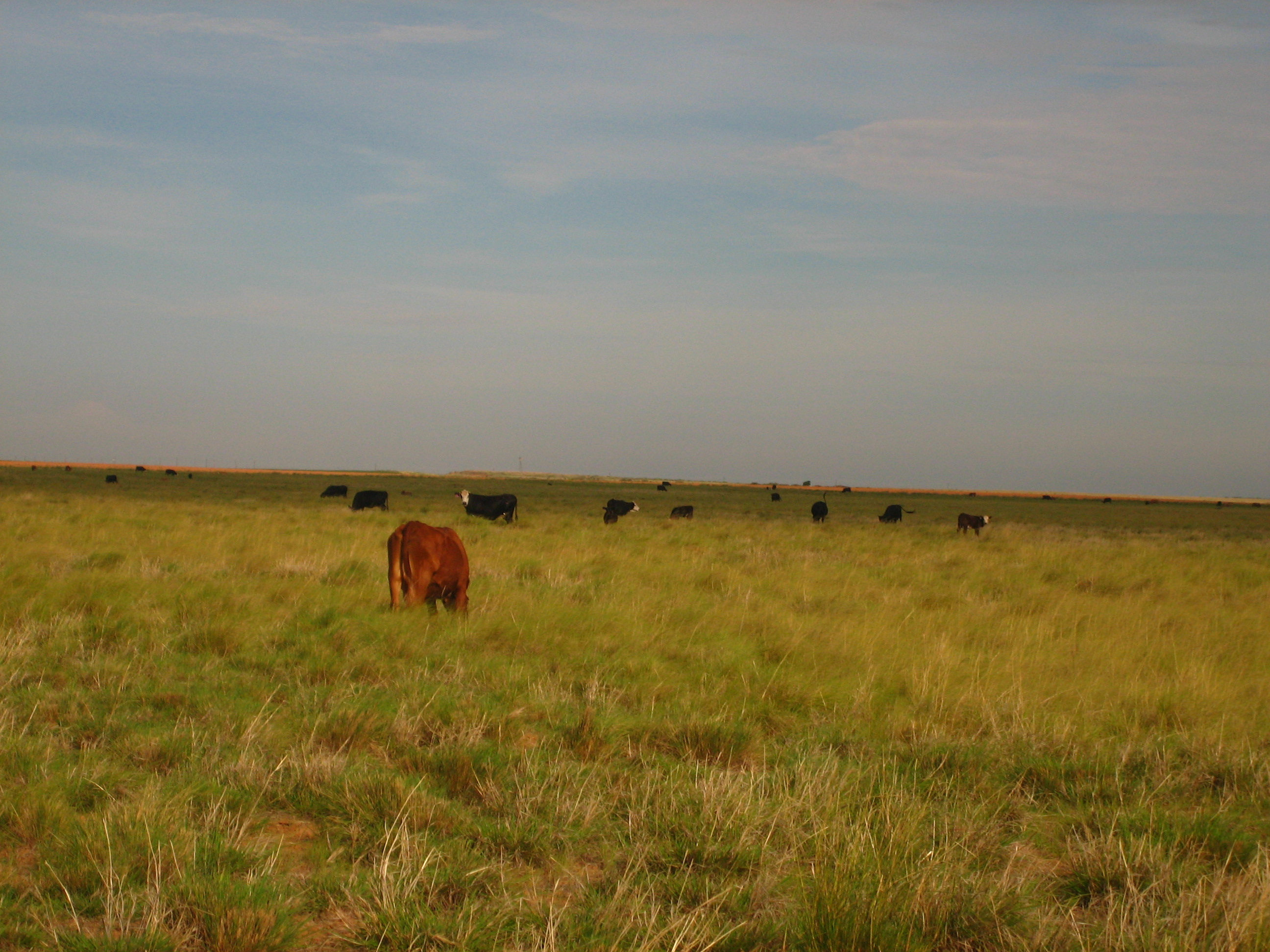 I took photo on July 11, 2009.